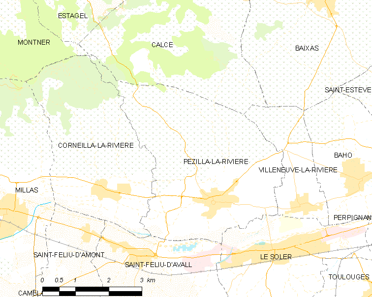 Map of French municipality